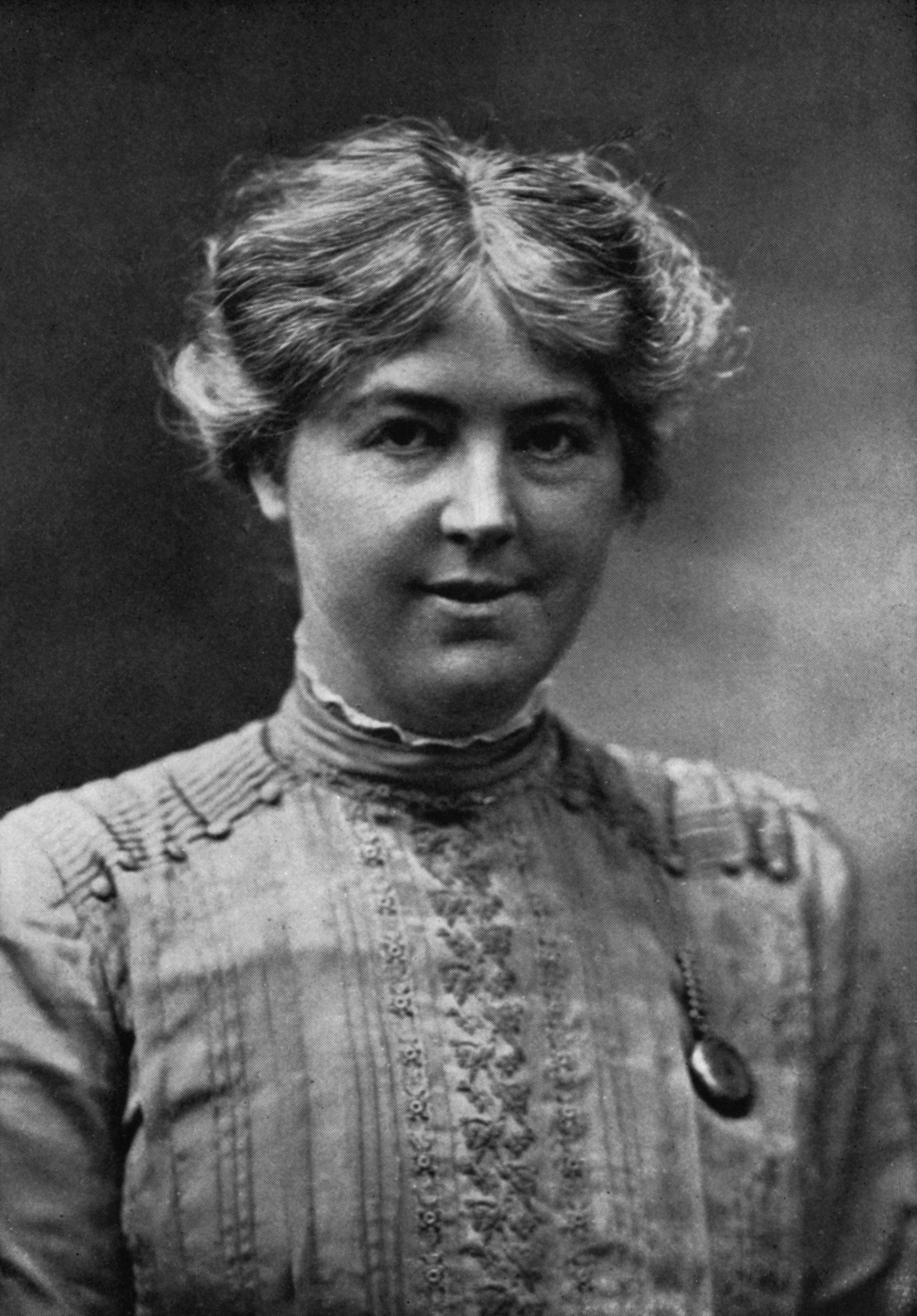 TWL.2002.79Postcard, printed, cardboard, monochrome photographic studio portrait of Chrystal Macmillan, front profile, white border along front bottom edge, manuscript inscription front: 'Miss Chrystal Macmillan'.